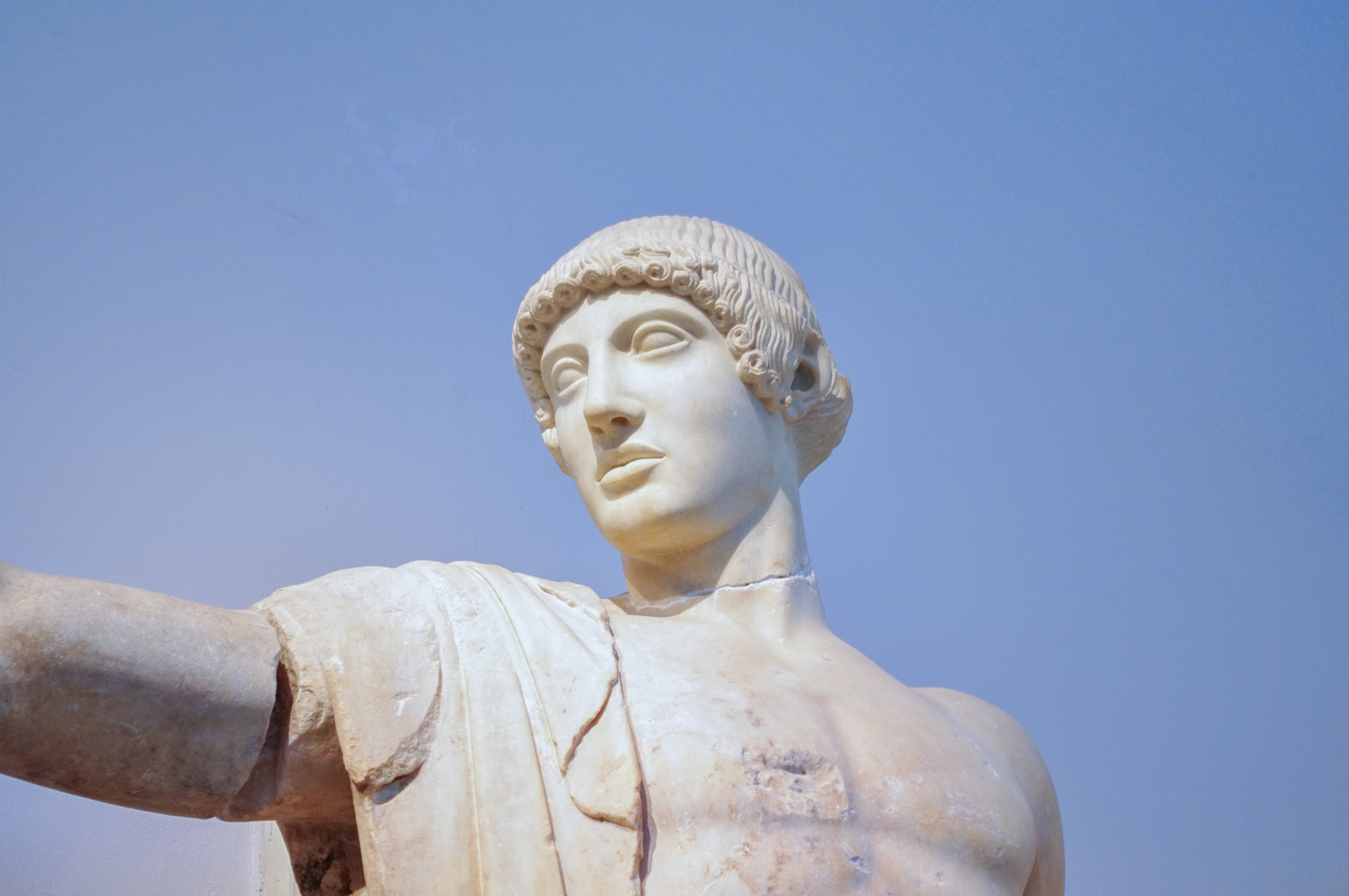 Apollo, from the west pediment of the temple of Zeus at Olympia«Ναός του Δία στην Ολυμπία»